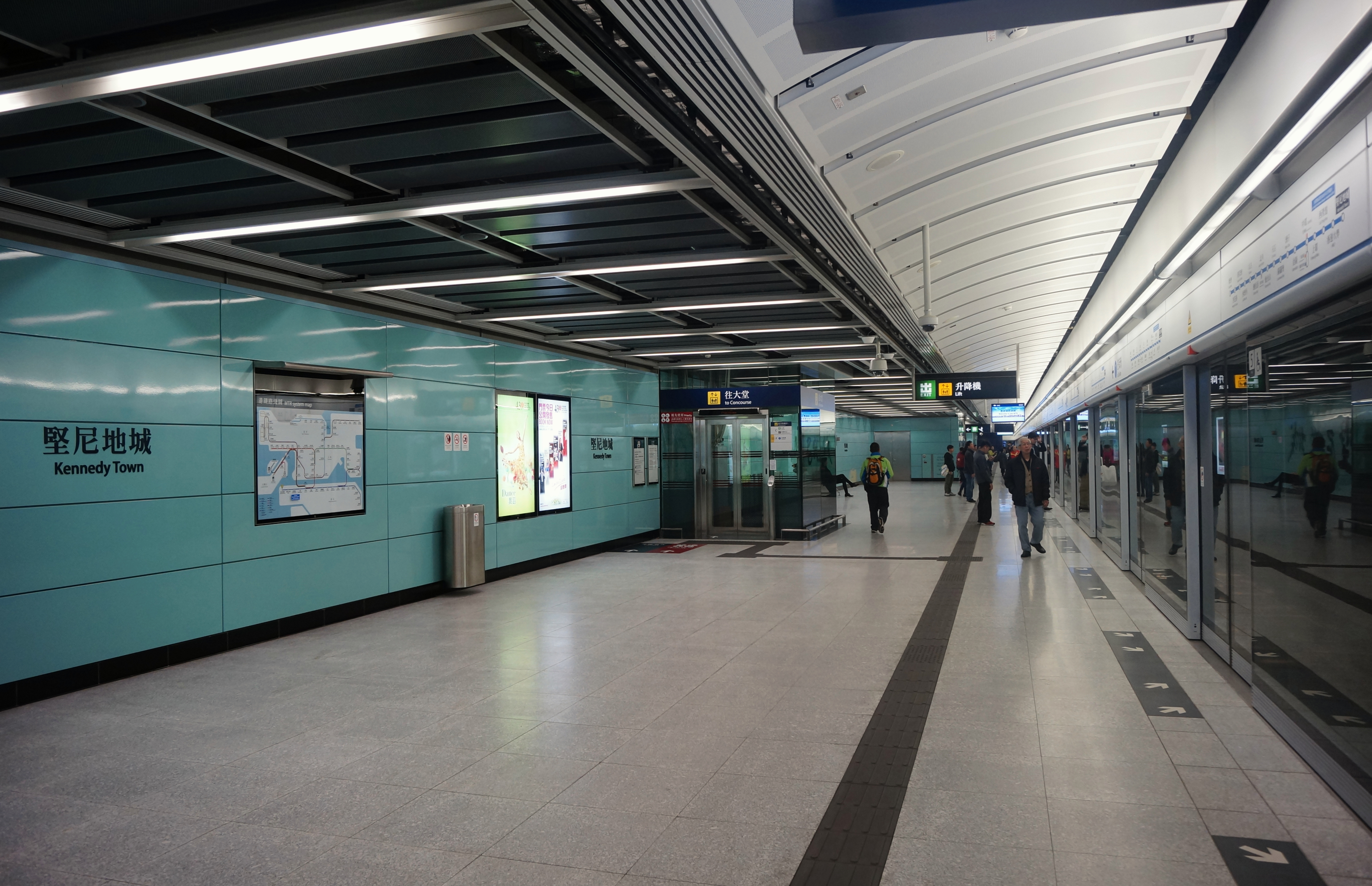 Kennedy Town Station platform